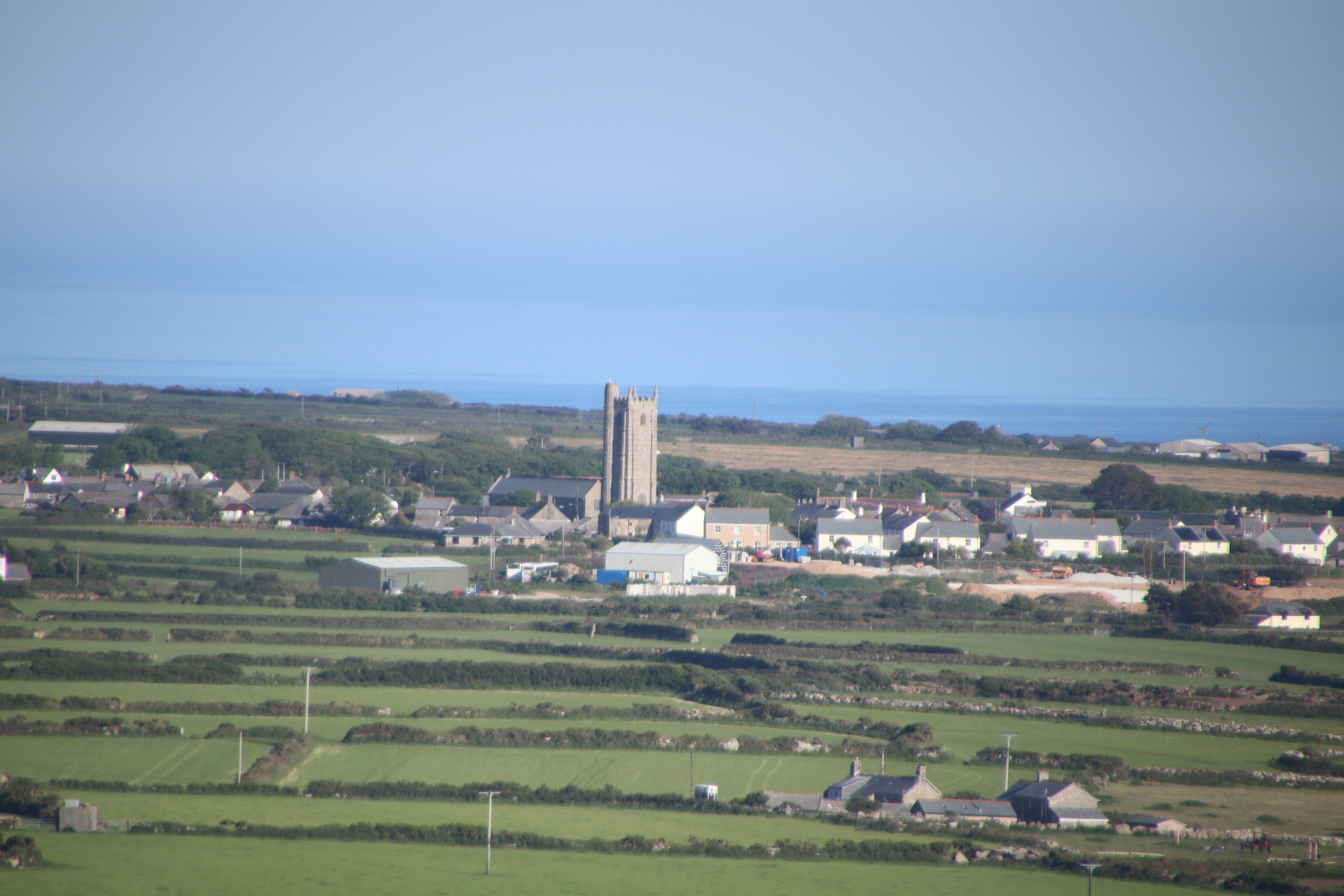 St Buryan Cornwall This photo was taken by Tom Corser and is © Tom Corser 2020. This photo may be reproduced under the terms of the Creative Commons Attribution-ShareAlike 3.0 Unported Licence [1] (unless otherwise stated). Please credit this photo Tom Corser If using this photo, make sure you properly credit and specify the licence that this photo is licensed under. (E.g. "Photo by Tom Corser Licensed under Creative Commons Attribution-ShareAlike 3.0 Unported Licence: If you would like to use this photo under a different license, please contact me via or . Attribution: Tom Corser